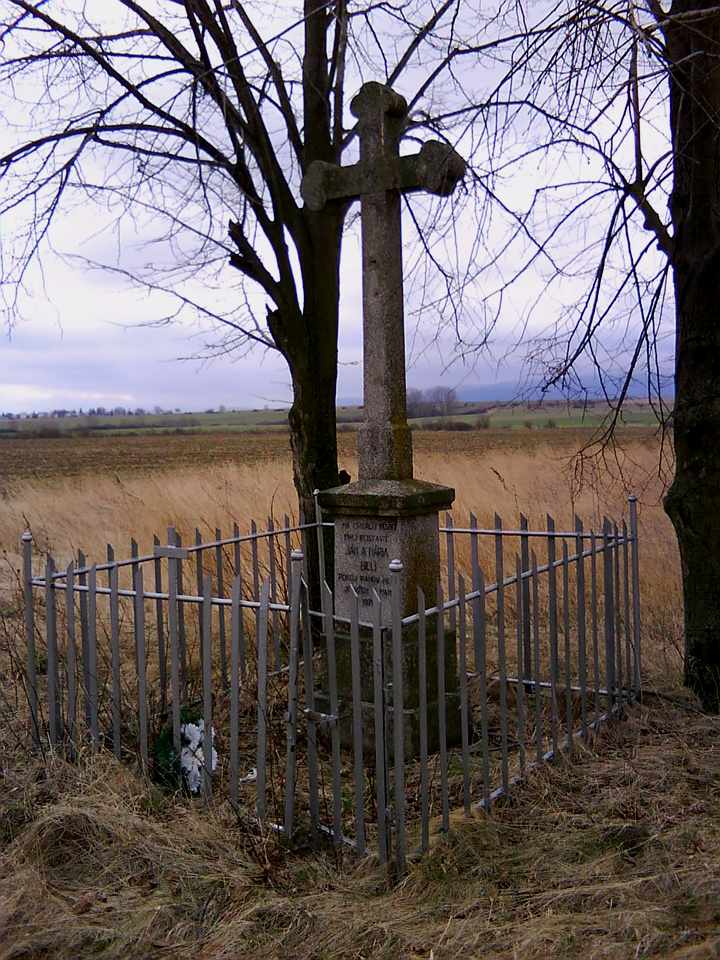 Stone cross built by Jan and Mária in 1970 (near house no. 1292/1), Borough of Albinov, Town of Sečovce.